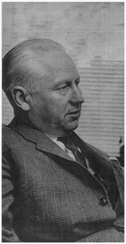 Photograph of the Finnish linguist Paavo Ravila (1902–1974).